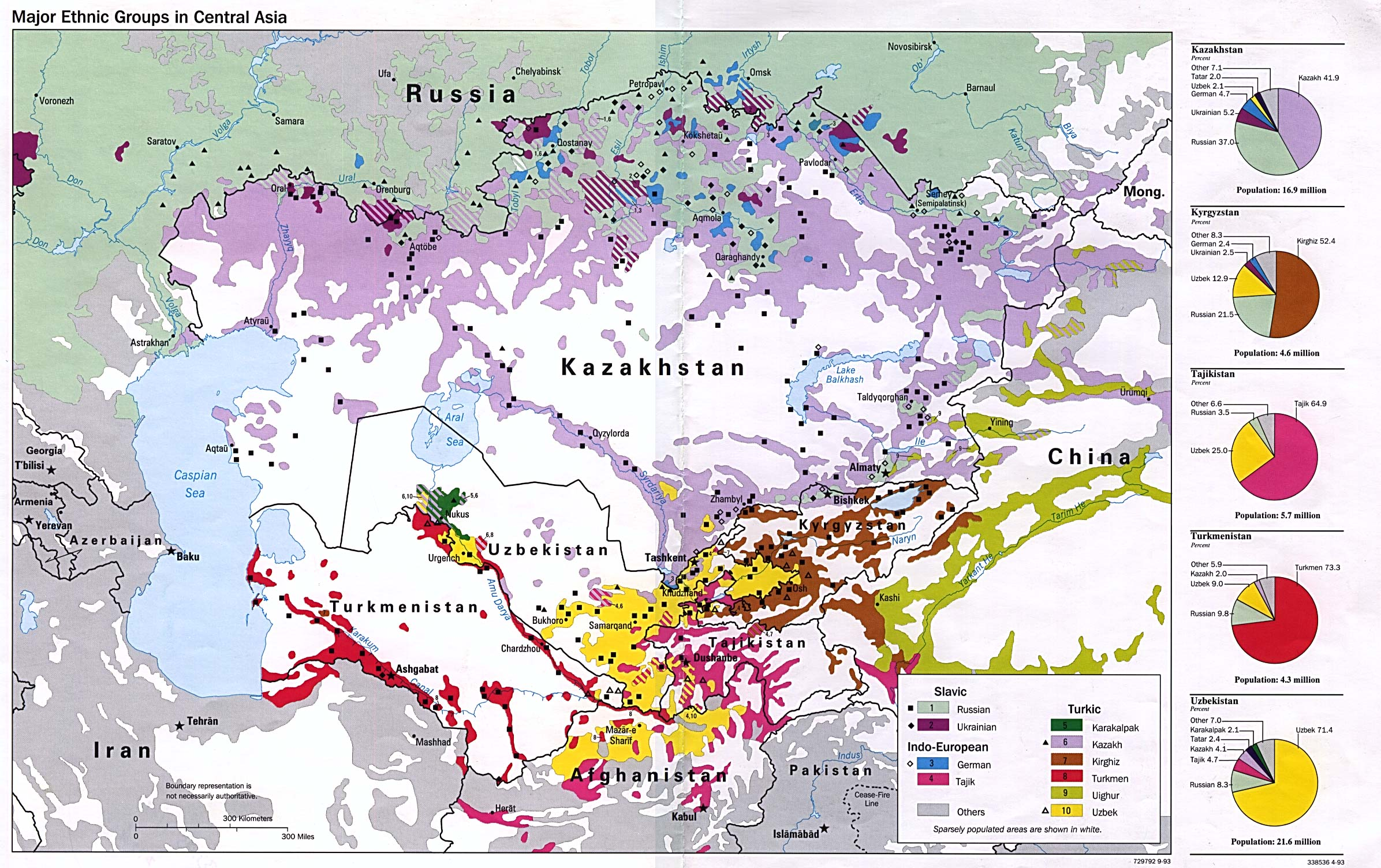 The ethnolinguitic patchwork of Central Asia - CIA map.